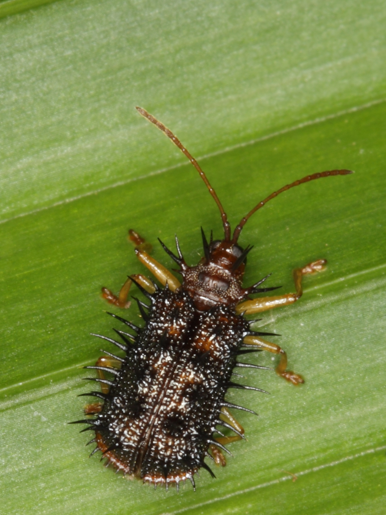 This rice hispa that usually mines&scrapes the leaves of rice I found at the edge of a lowland rainforest of the Lake Rawa NP (West Java) where some rice fields are maintained despite the lack of roads. more about its life cycle and pest control: Dactylispa sp. Tribus: Hispini ? Subfamily: Hispinae GYLLENHAL, 1813 Family: Chrysomelidae (leaf beetles, Blattkäfer) Superfamily: Chrysomeloidea Suborder: Polyphaga Order: Coleoptera (beetles, Käfer) more info: Indonesia, W-Java, Serang, vic. Bulakan: Danau Rawa NP, 120-340m asl., 13.03.2011 Distribution: SE-Asia, Africa IMG_0618